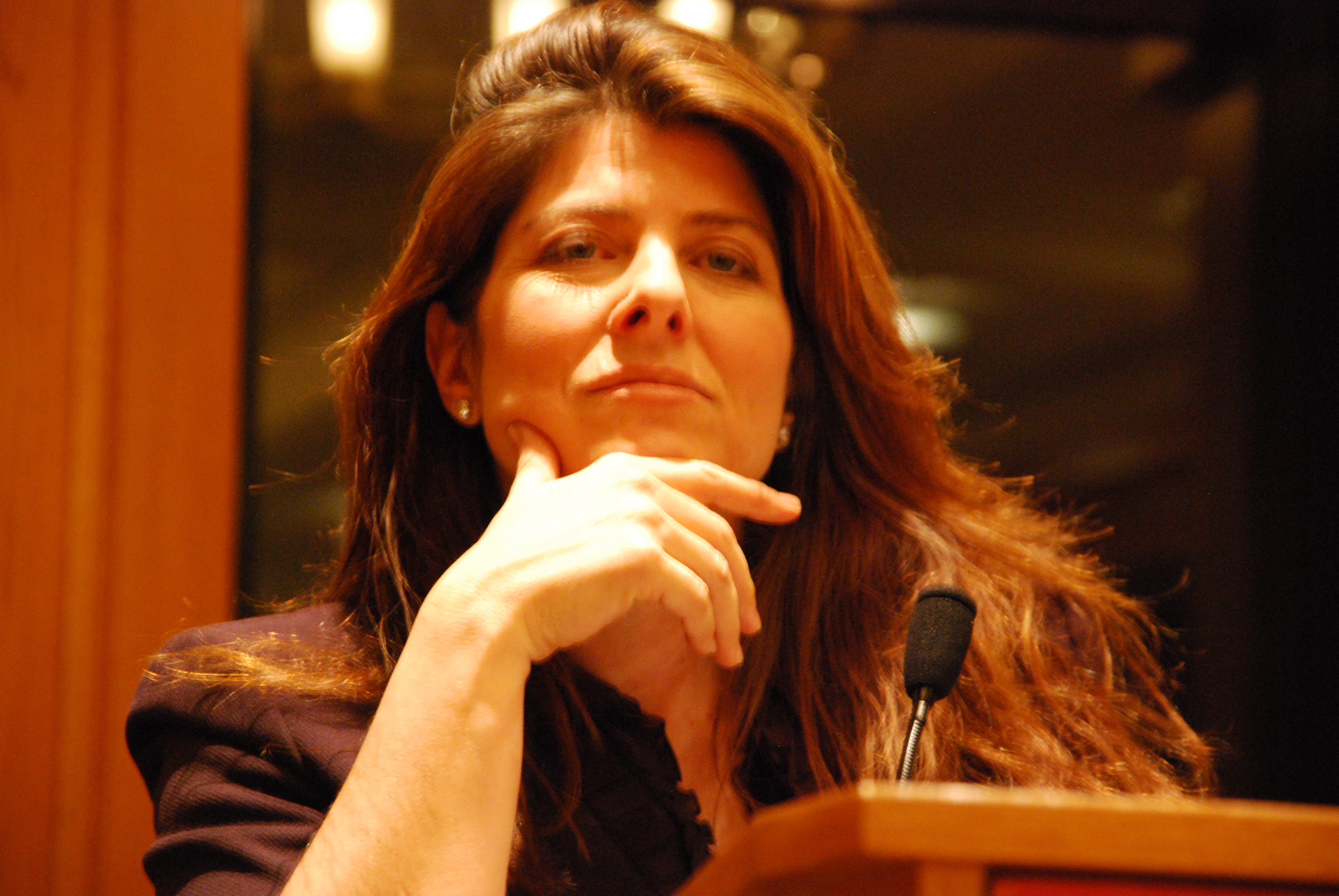 Author Naomi Wolf speaking at an event hosted by the NYC chapter of the National Lawyers Guild. The talk was held at the Brooklyn Law School.